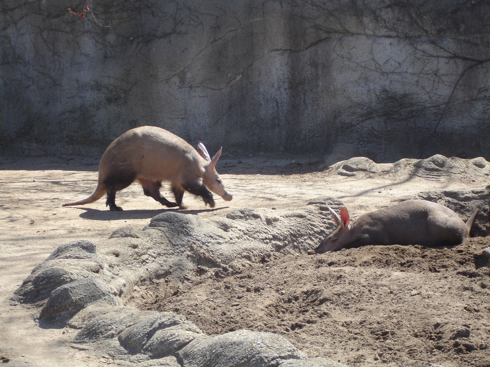 A couple of aardvarks at Detroit Zoo